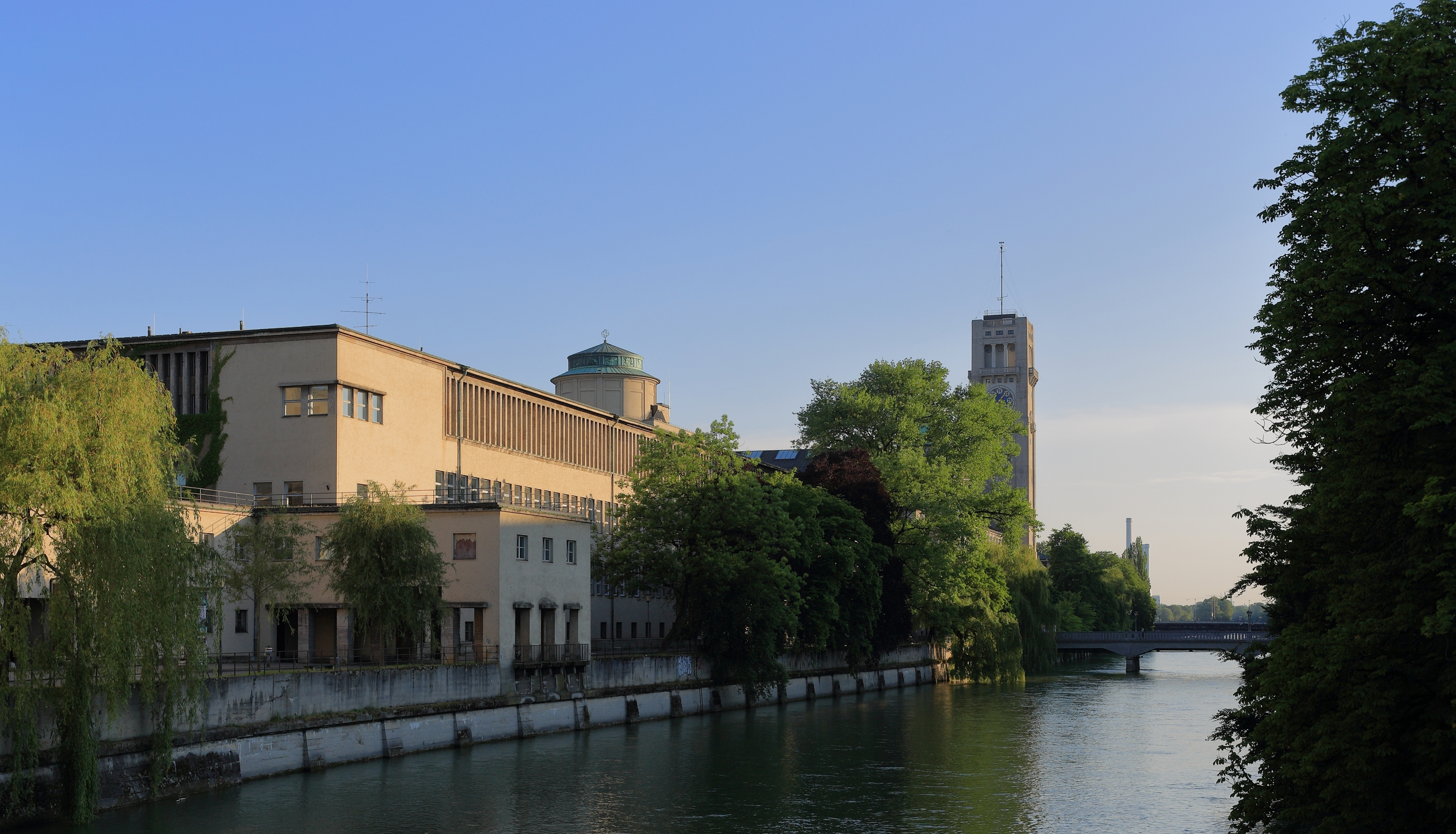 The Deutsches Museum in Munich in the evening.